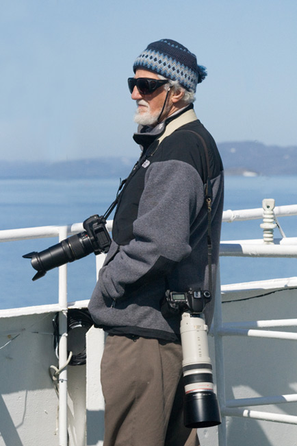 Master Photographer Hans-Ludwig Blohm during a cruise along the Nunatsiavut (Labrador) Coast in July 2009.